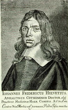 Johann Friedrich Schweitzer (1625–1709) BIBLIOTHECA CHYMICA